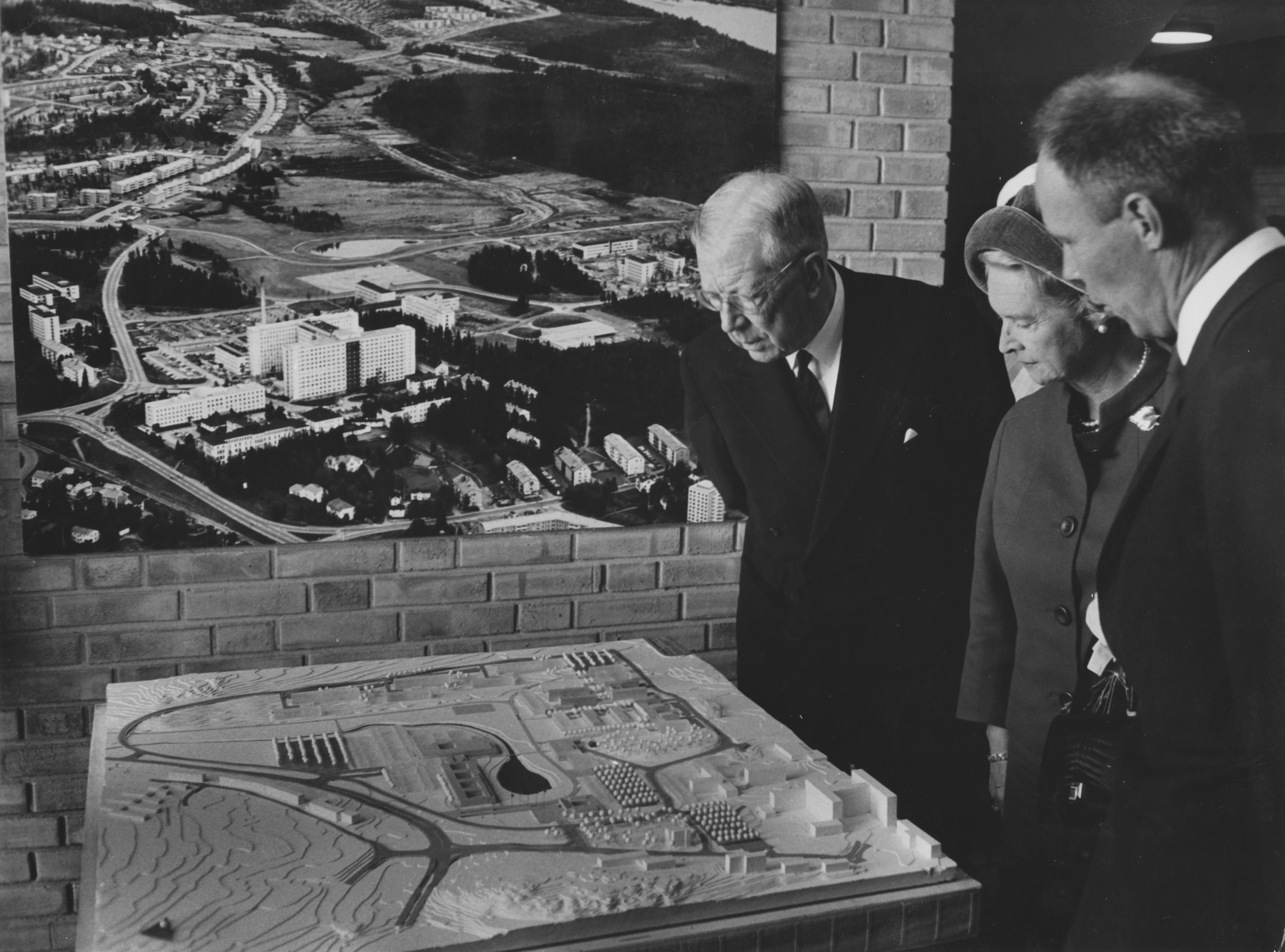 Vice-chancellor L-G Larsson shows a model of the university campus to King Gustaf VI Adolf and Princess Sibylla, at the university's inauguration.